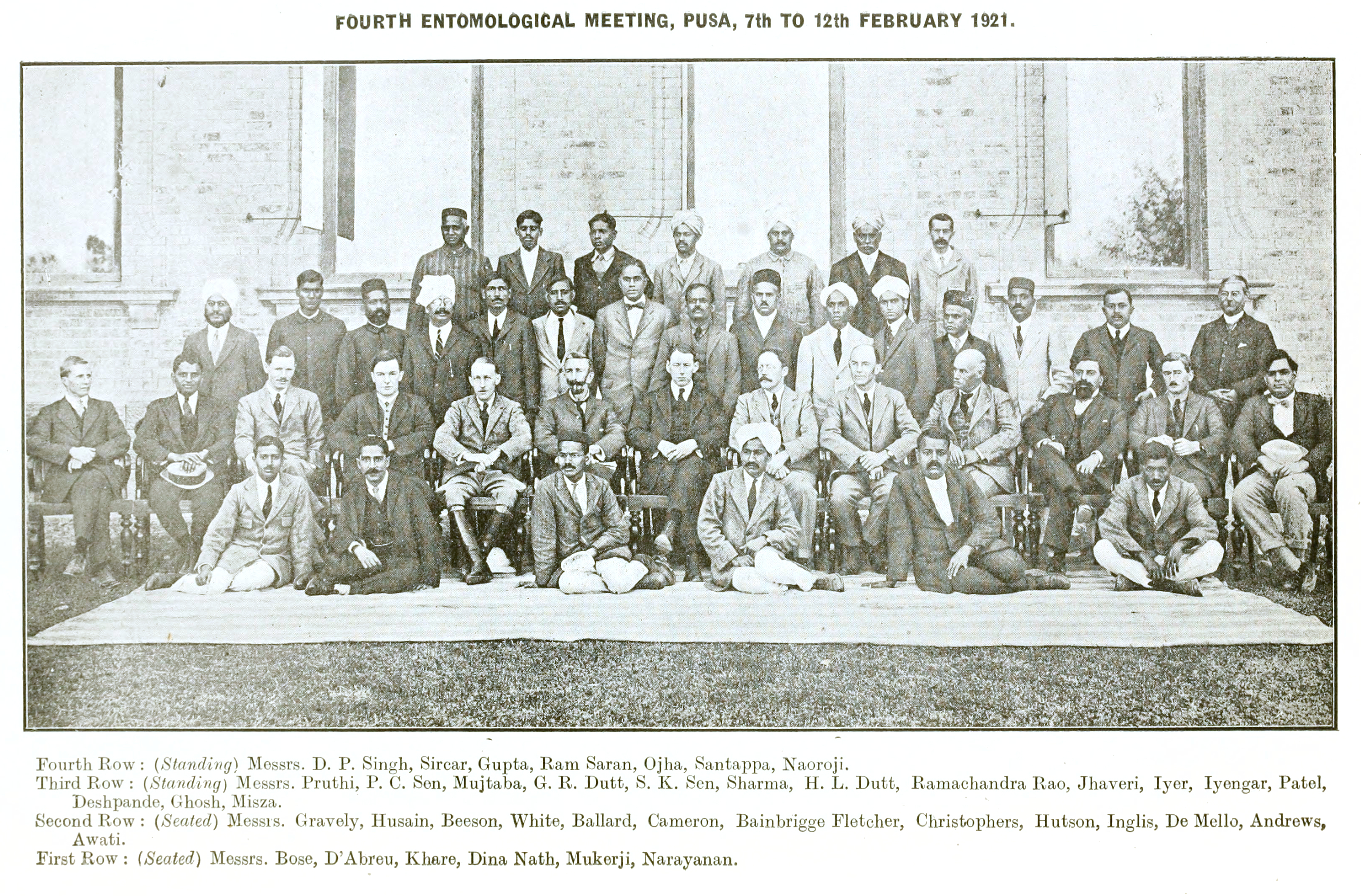 Indian entomologists meeting in 1921 Fourth Row: D.P. Singh, Sircar, Gupta, Ram Saran, G.D. Ojha, BC Santappa, D Naoroji Third Row: H S Pruthi, PC Sen, A Mujtaba, GR Dutt, SK Sen, Sharma, HL Dutt, Y Ramachandra Rao, T N Jhaveri, T.V. Ramakrishna Ayyar, MOT Iyengar, Patel, V.G. Deshpande, C.C. Ghosh, C.S Misra Second Row: FH Gravely, M Afzal Husain, Beeson, White, E Ballard, Malcolm Cameron, Bainbrigge Fletcher, S R Christophers, JC Hutson, CM Inglis, Froilano De Mello, E A Andrews, P.R. Awati First Row: Bose, E A D'Abreu, Khare, Dina Nath, Mukerji, Narayanan